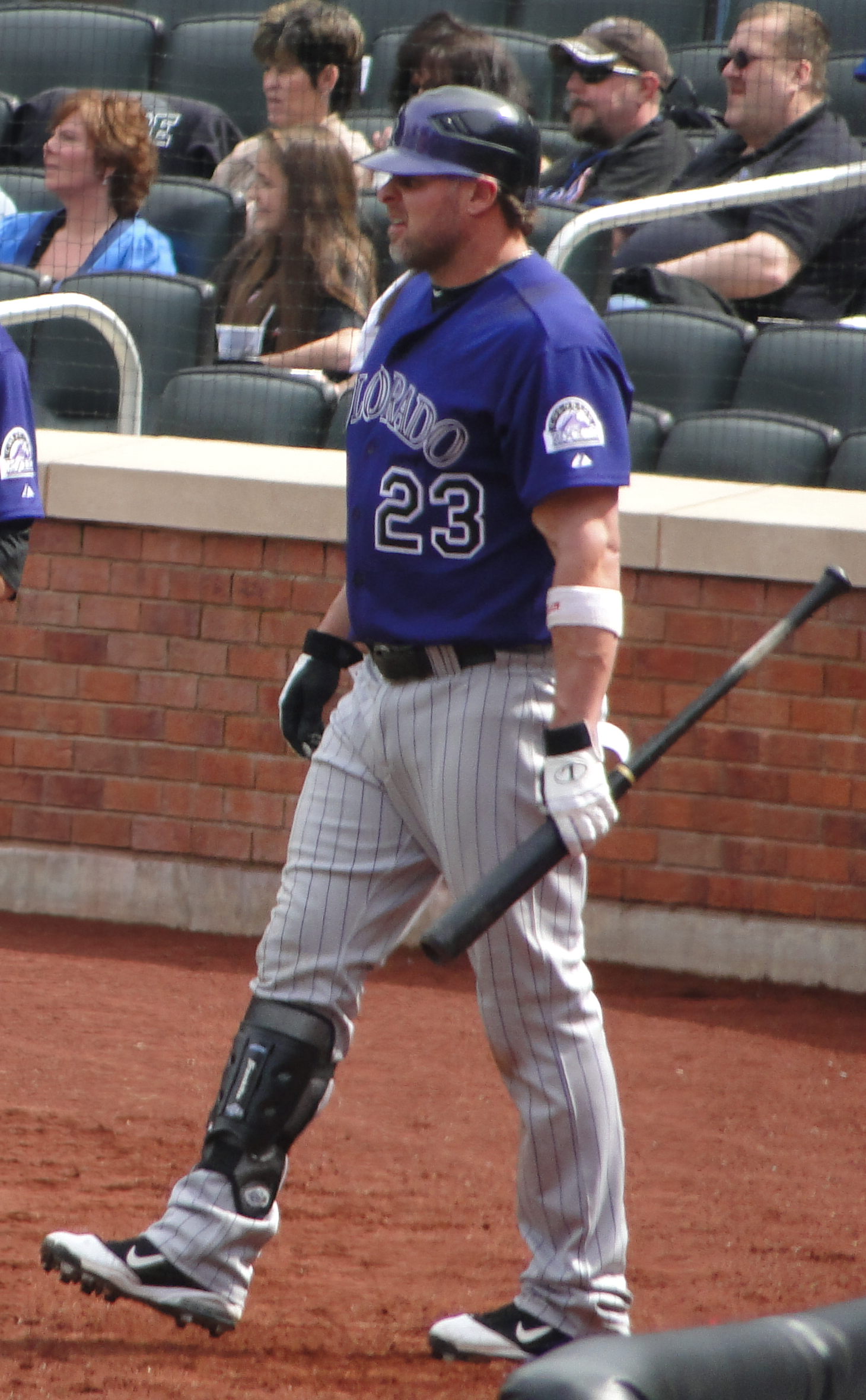 Jason Giambi